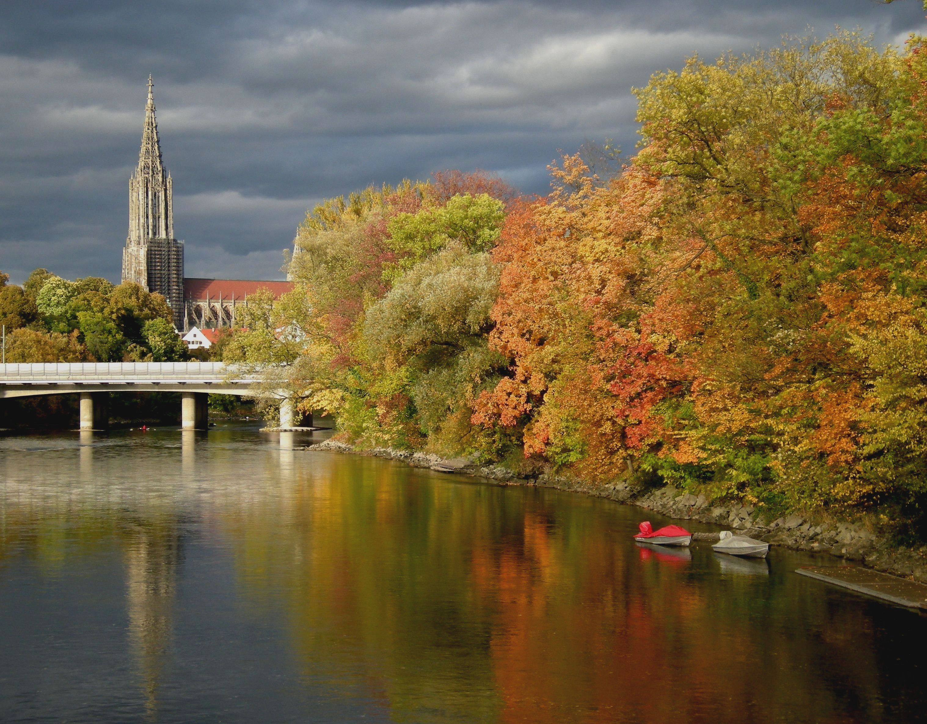 Autumnly banks of the Danube with railroad bridge and minster